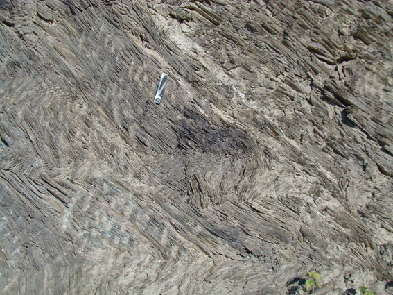 Low resolution picture of Phyllite in Srinagar Garhwal